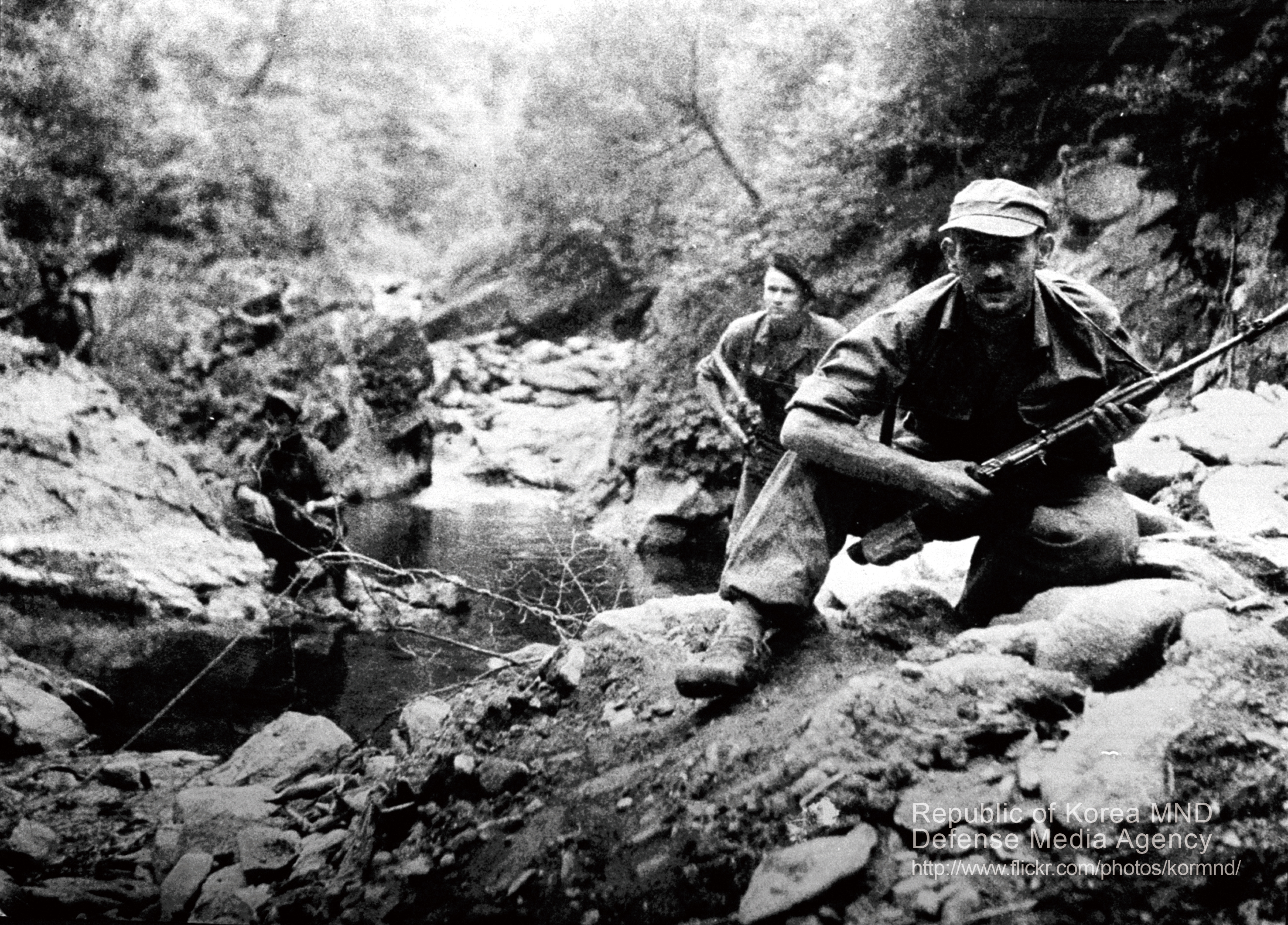 2010 국방화보 Rep. of Korea, Defense Photo Magazine 전선에서의 프랑스군 장병들 모습. French soldiers in the battlefields.